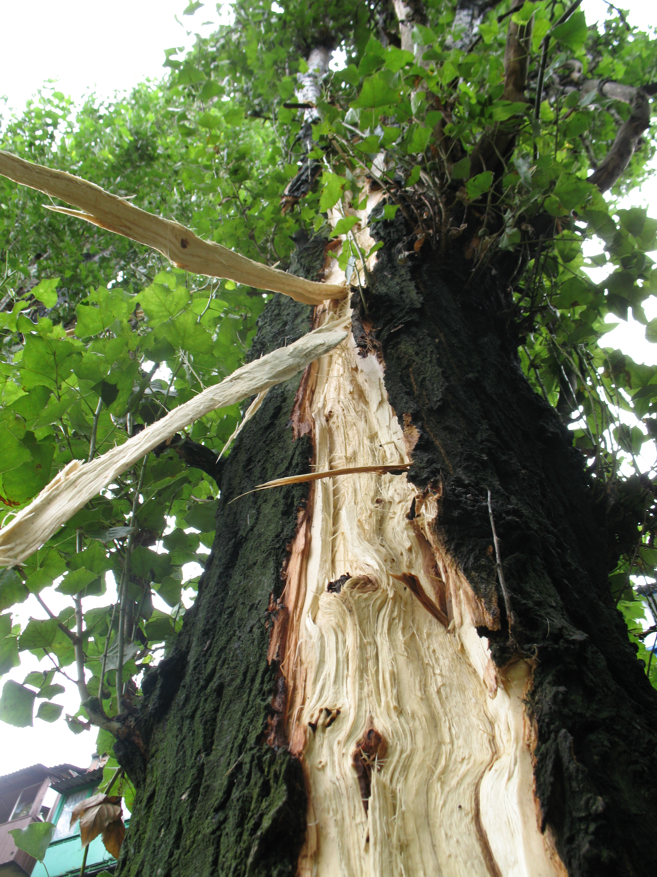 Lightning damage to tree in Makeevka Ukraine 2008